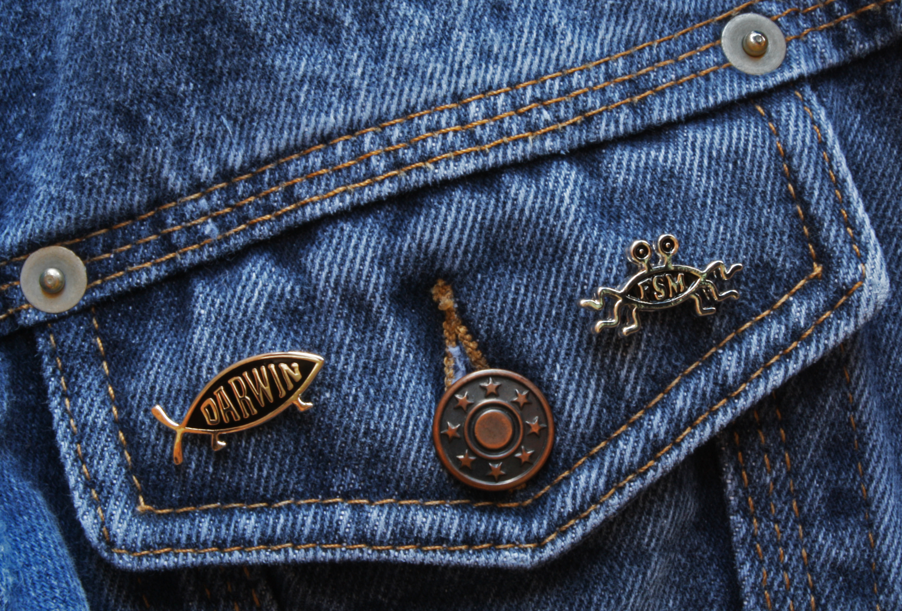 A couple of pin badges: the Darwin Fish and the Flying Spaghetti Monster - not to be worn in church!